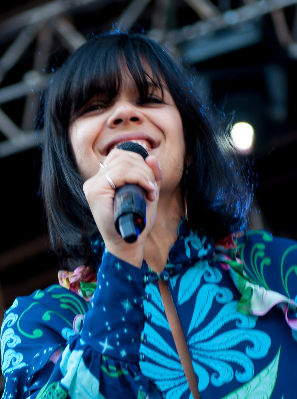 Bat for Lashes (Natasha Khan) at Way out West 2013 in Gothenburg, Sweden